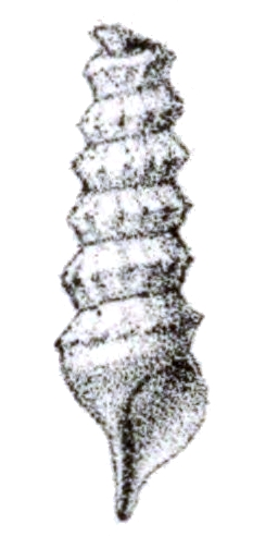 Drawing of apertual view of embryonic shell (protoconch) of Syrinx aruanus.